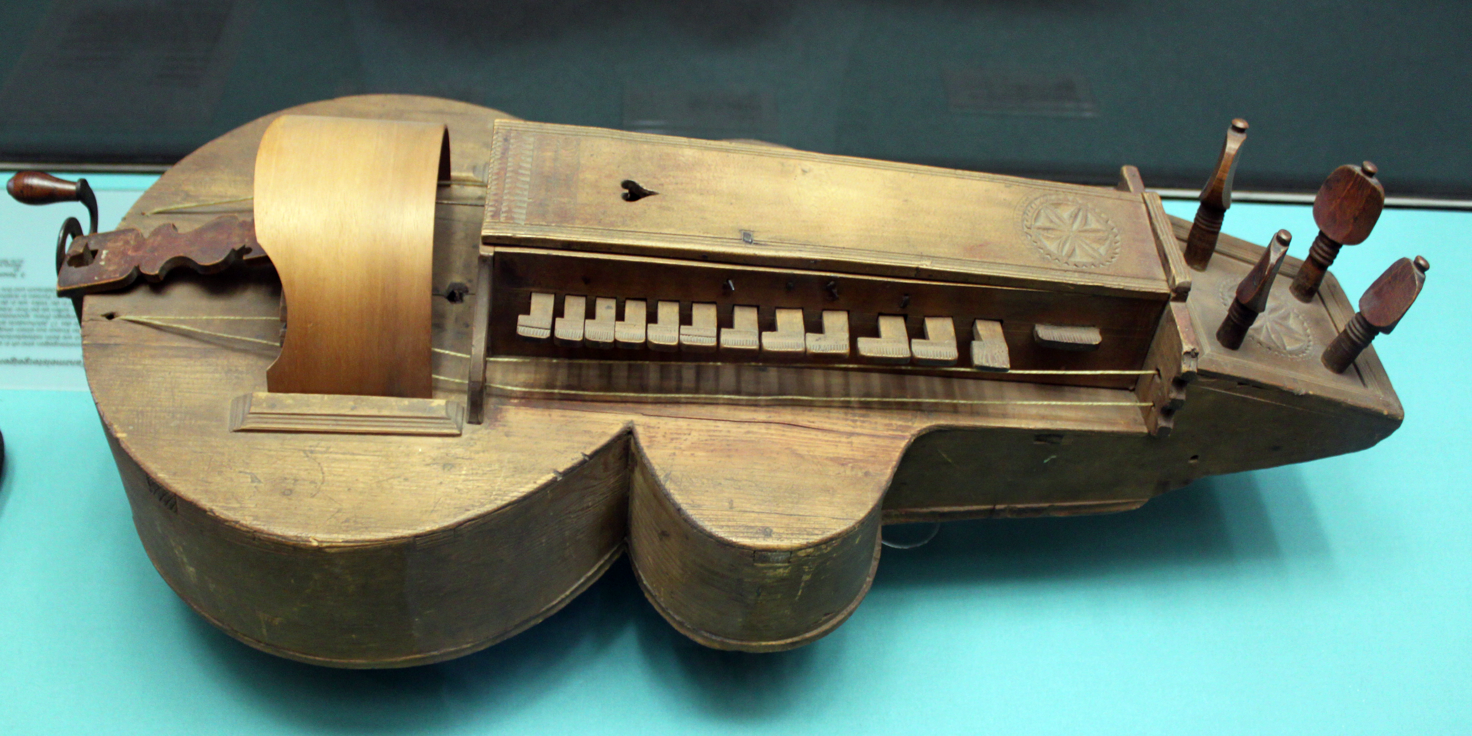 Hurdy Gurdy, 1700; Germanic National Museum in Nuremberg